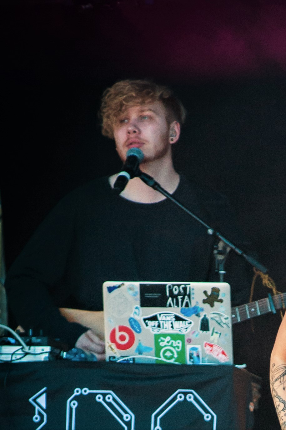 A cropped version of File:Evelina - Ilosaarirock 2017 - 02.jpg